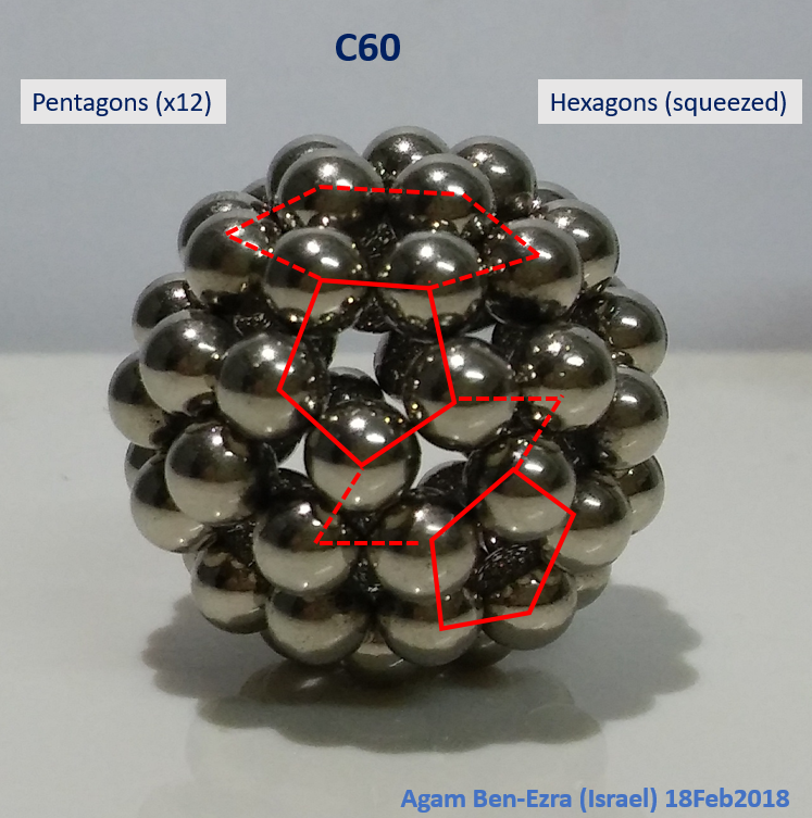 The model is built of magnetic balls (5mm diam); 12 pentagons compose a spherical shell with 60 nodes, demonstrating the Carbon atoms. The model suggests 4 nearest-neighbors to each ball, this is possible because the hexagons are squeezed.